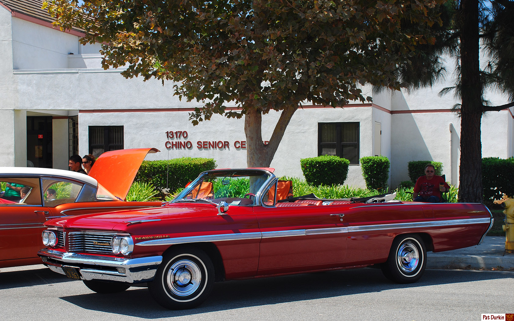 Corn Feed Run Cruise - Chino, CA